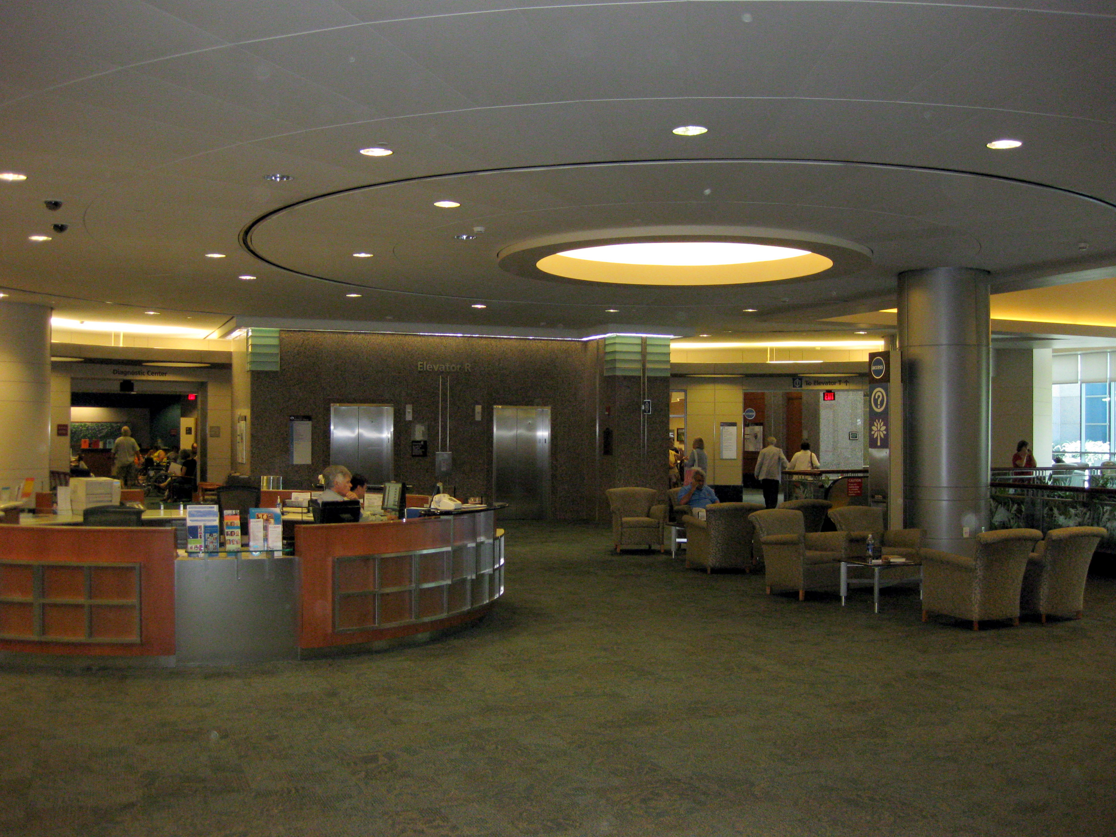 MD Anderson Cancer Center - Mays Clinic - reception area